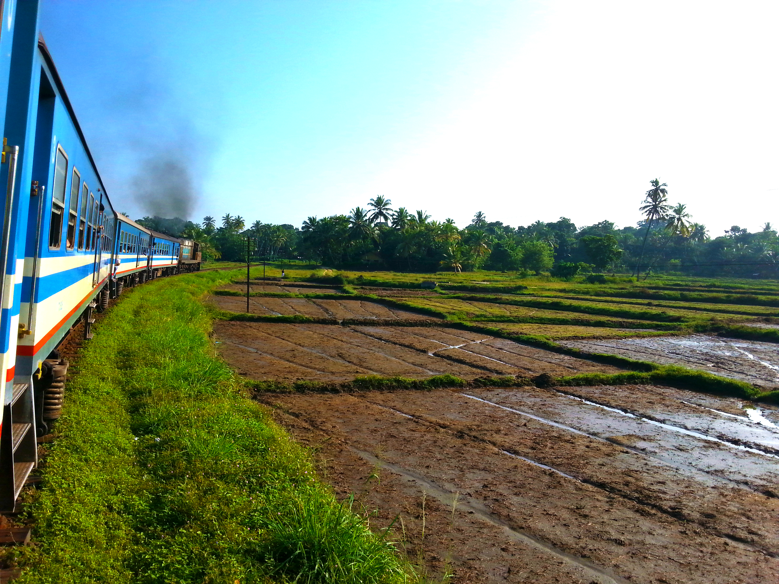 Udaya Devi heading Batticoloa near Pothuhera